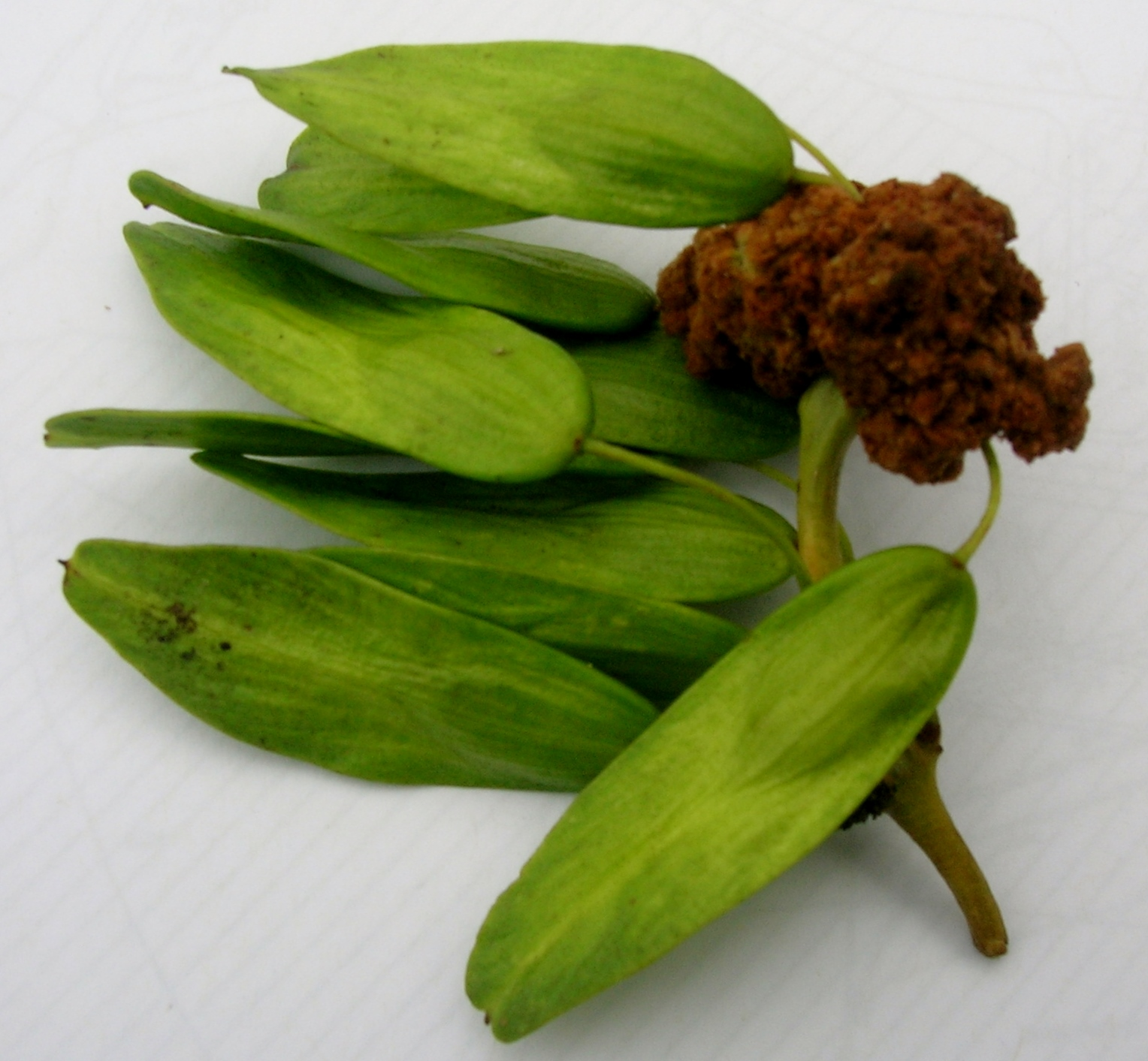 Normal seeds and Aceria fraxinivorus the Ash Key Gall, Pollok Park, Glasgow, Scotland.